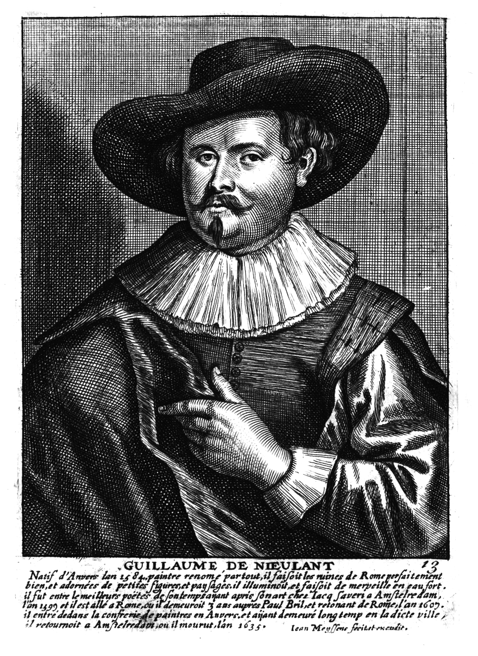 Willem van Nieulandt II (1584-1635) in Cornelis de Bie's Gulden Cabinet.